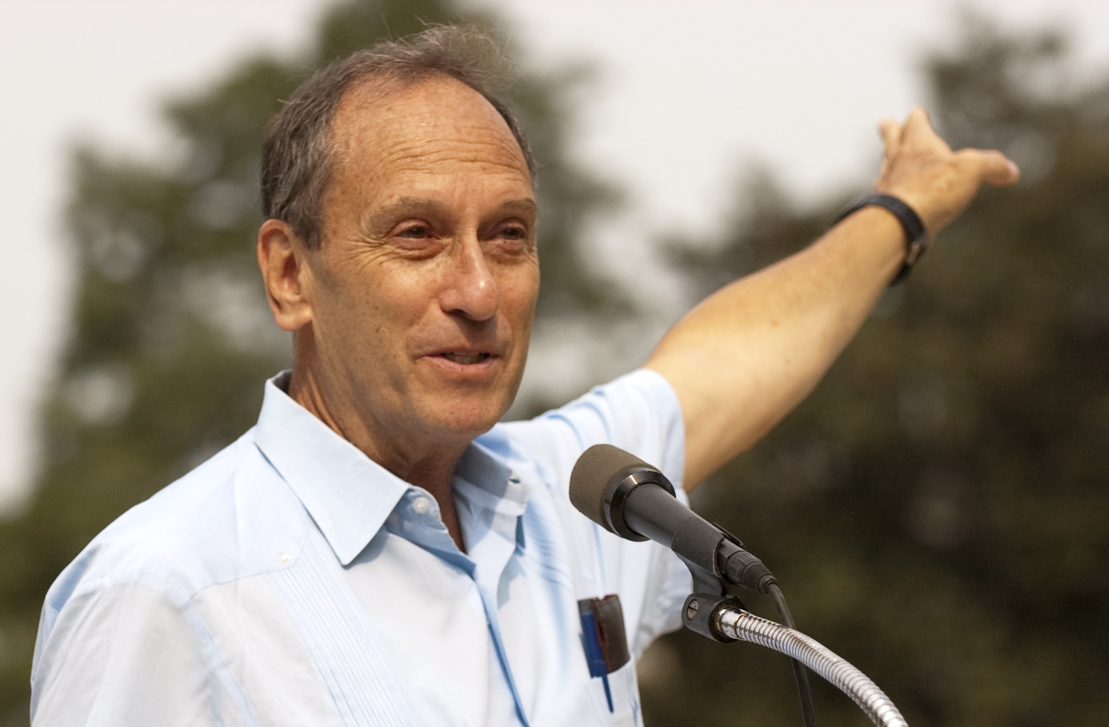 Saul Landau at the Annual Sheridan Circle Memorial Service September 21, 2003